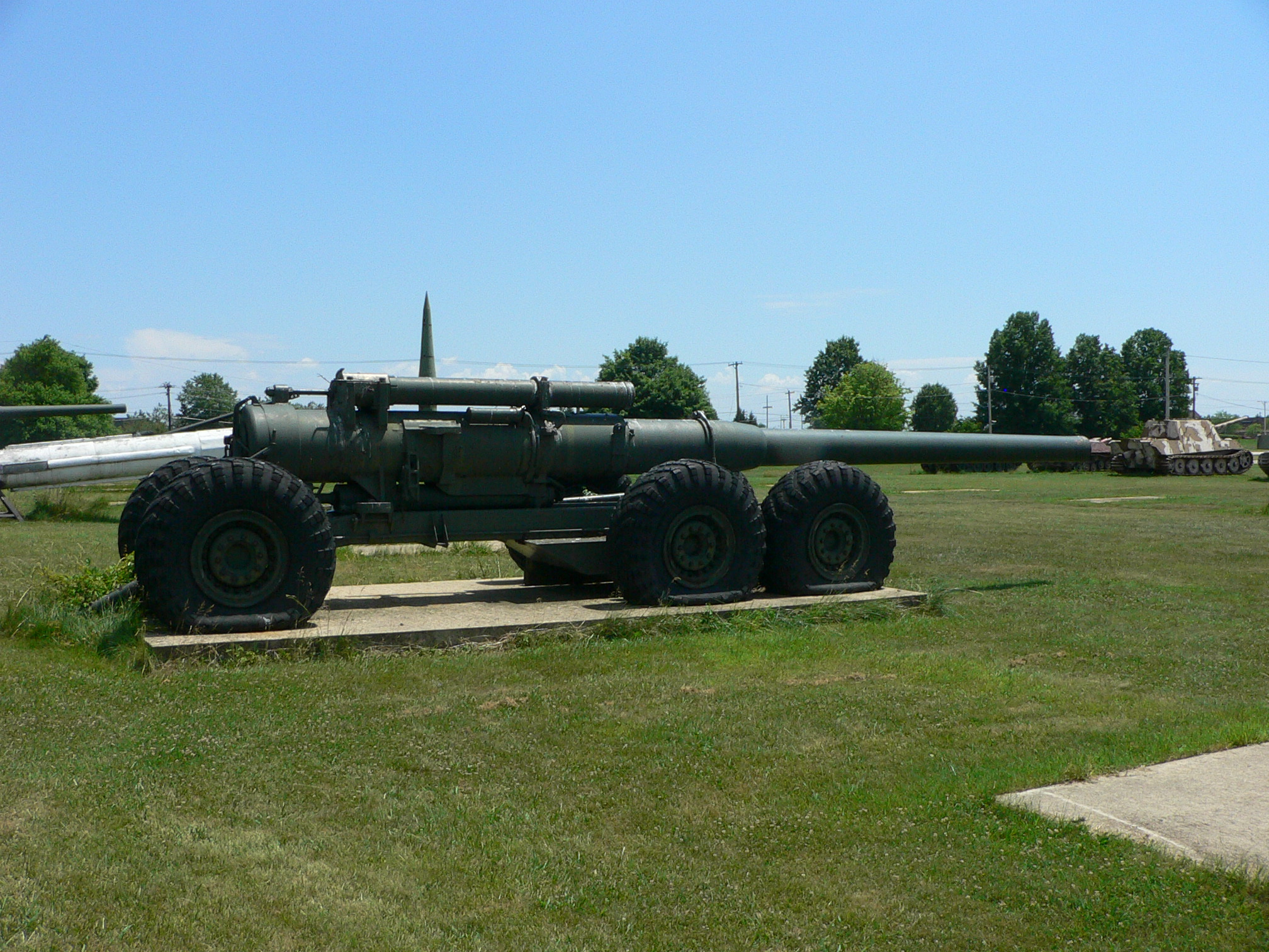 At the United States Army Ordnance Museum (Aberdeen Proving Ground, MD)